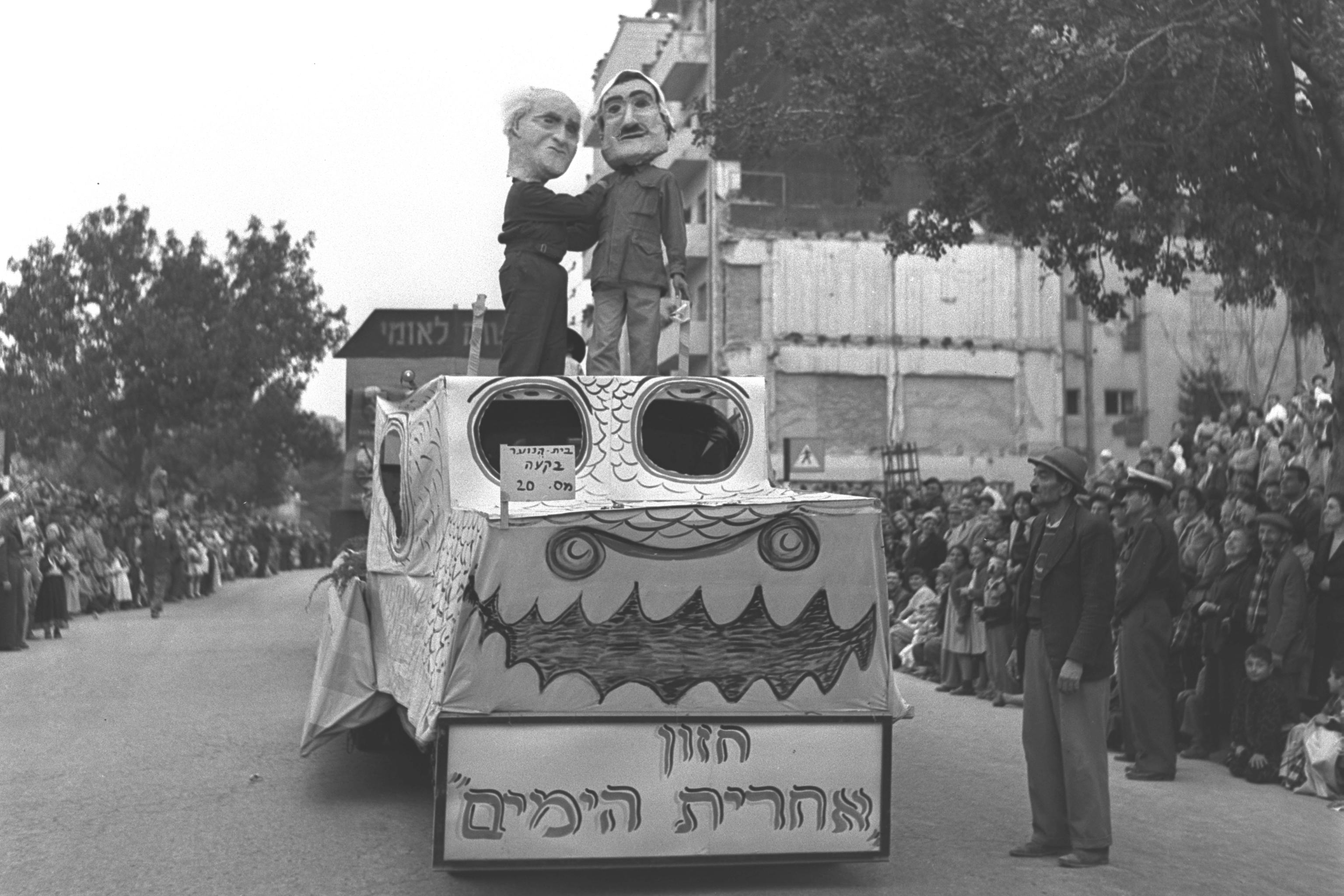 "David Ben Gurion" & "Nasser" Particpating In The Tel Aviv "Adloyada" Parade.